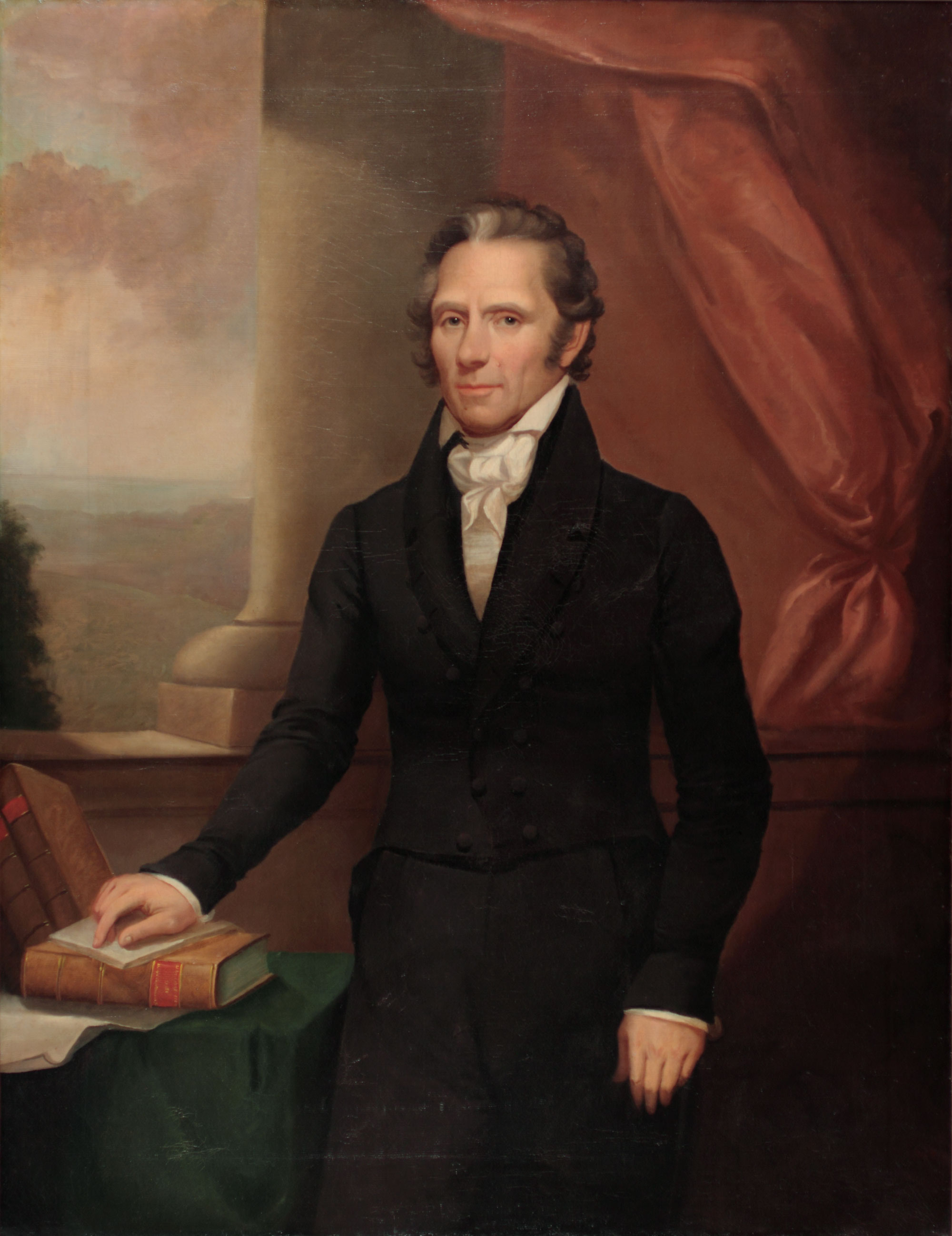 Official Gubernatorial portrait of Enos T. Throop.